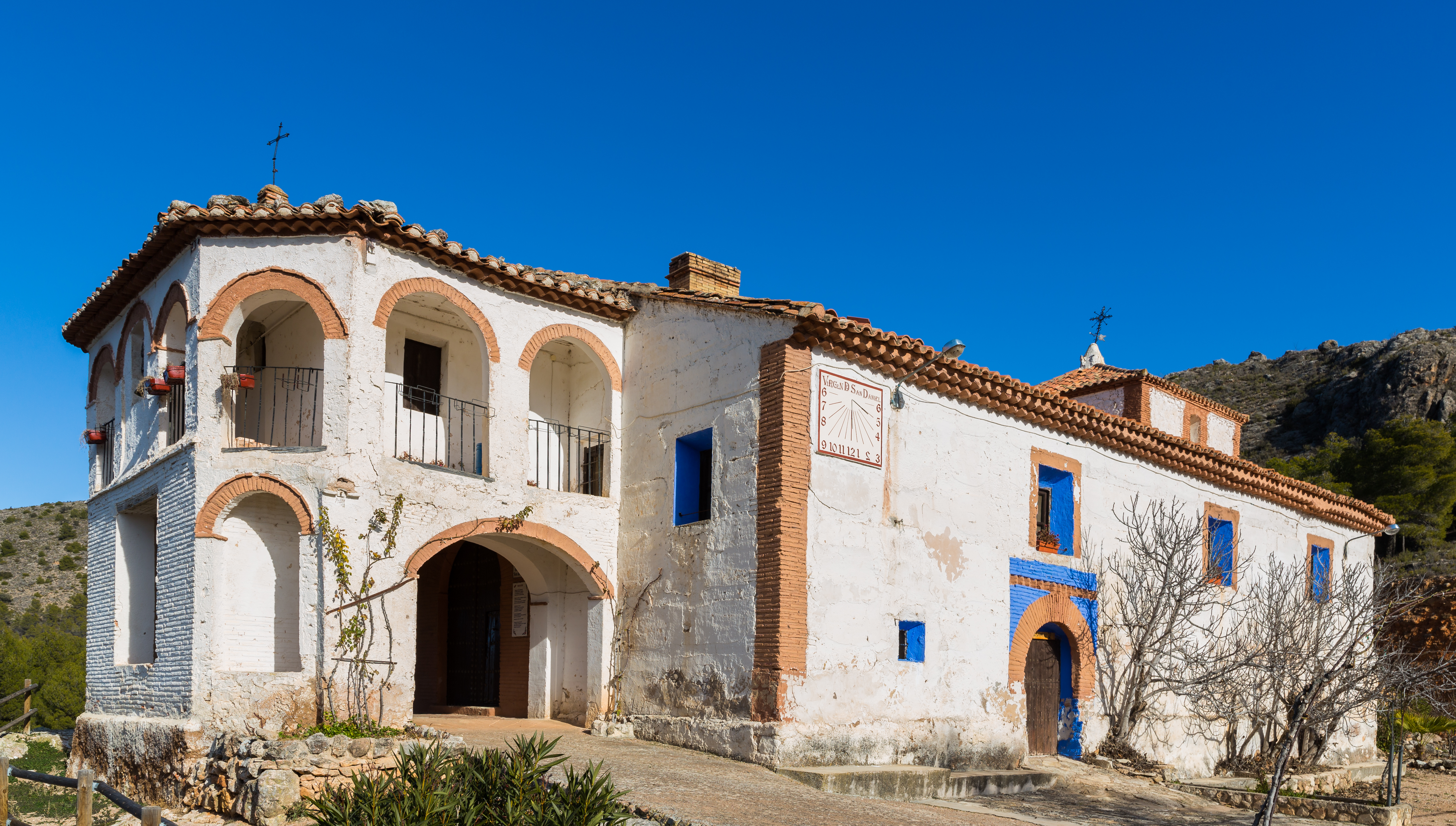 Hermitage of St Daniel, Ibdes, Zaragoza, Spain